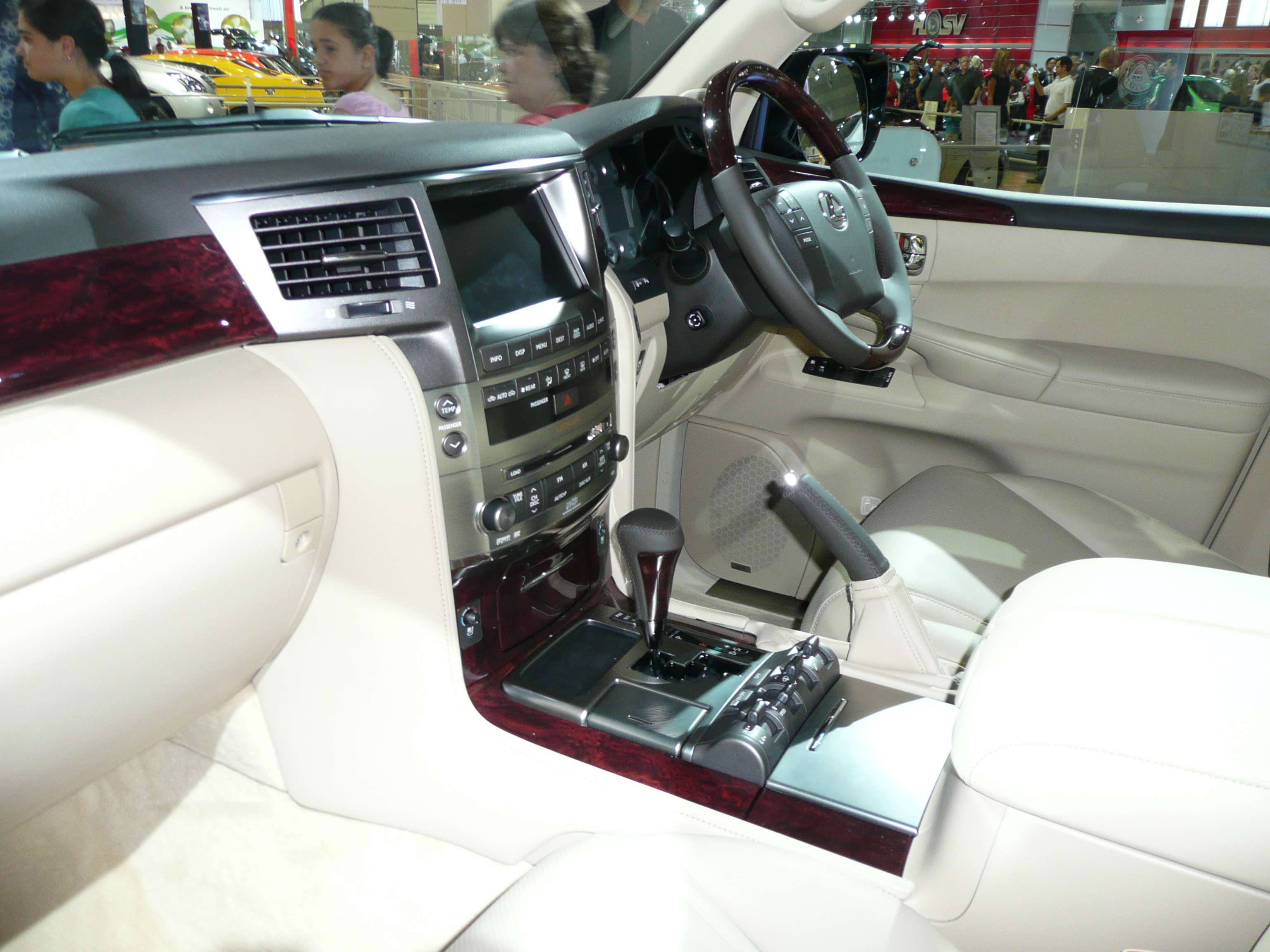 2007 Lexus LX 570 (URJ201R) wagon. Photographed at the 2007 Australian International Motor Show, Sydney, New South Wales, Australia.